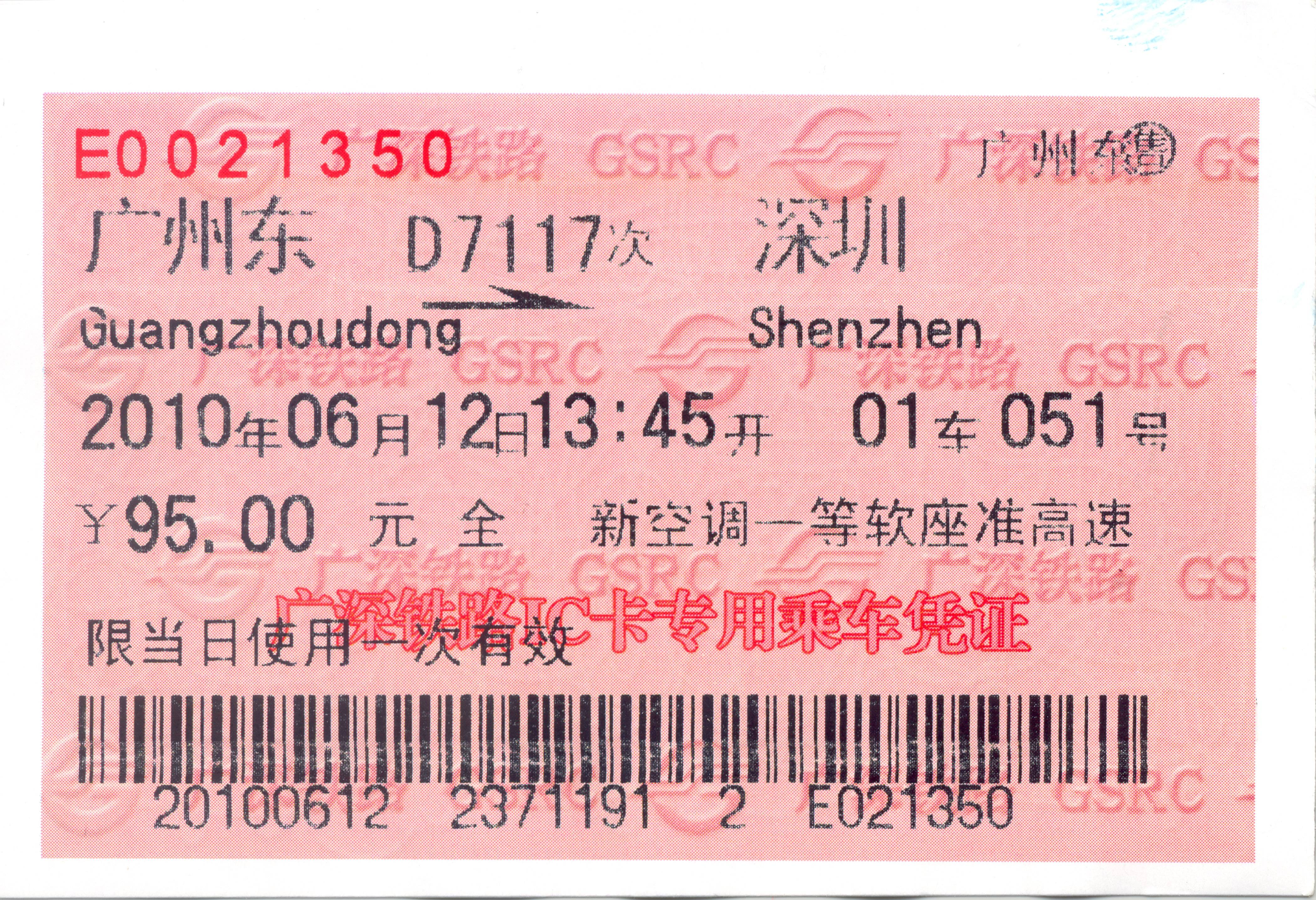 China Railway Ticket (Paper with Non-contact IC Chip)